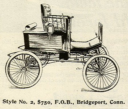 Steam powered Locomobile automobile